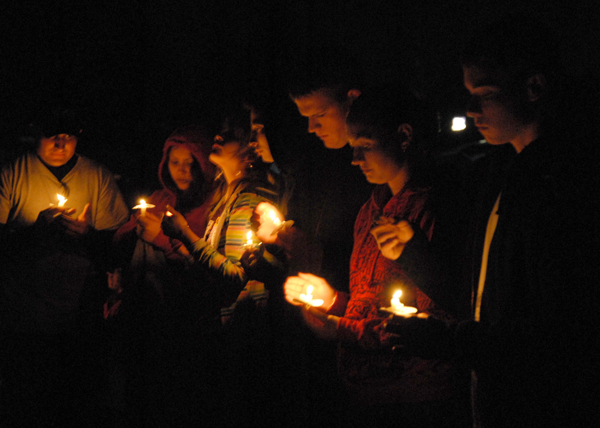 OAK HARBOR, Wash. (June 6, 2008) Participants in the Relay For Life North Whidbey hold candles in honor and remembrance of cancer survivors and victims at the Oak Harbor Middle School during the Relay Luminary Ceremony. Relay For Life is a fundraiser held by the American Cancer Society to raise money for cancer research and to promote cancer awareness. U.S. Navy photo by Mass Communication Specialist 2nd Class Tucker M. Yates (Released)